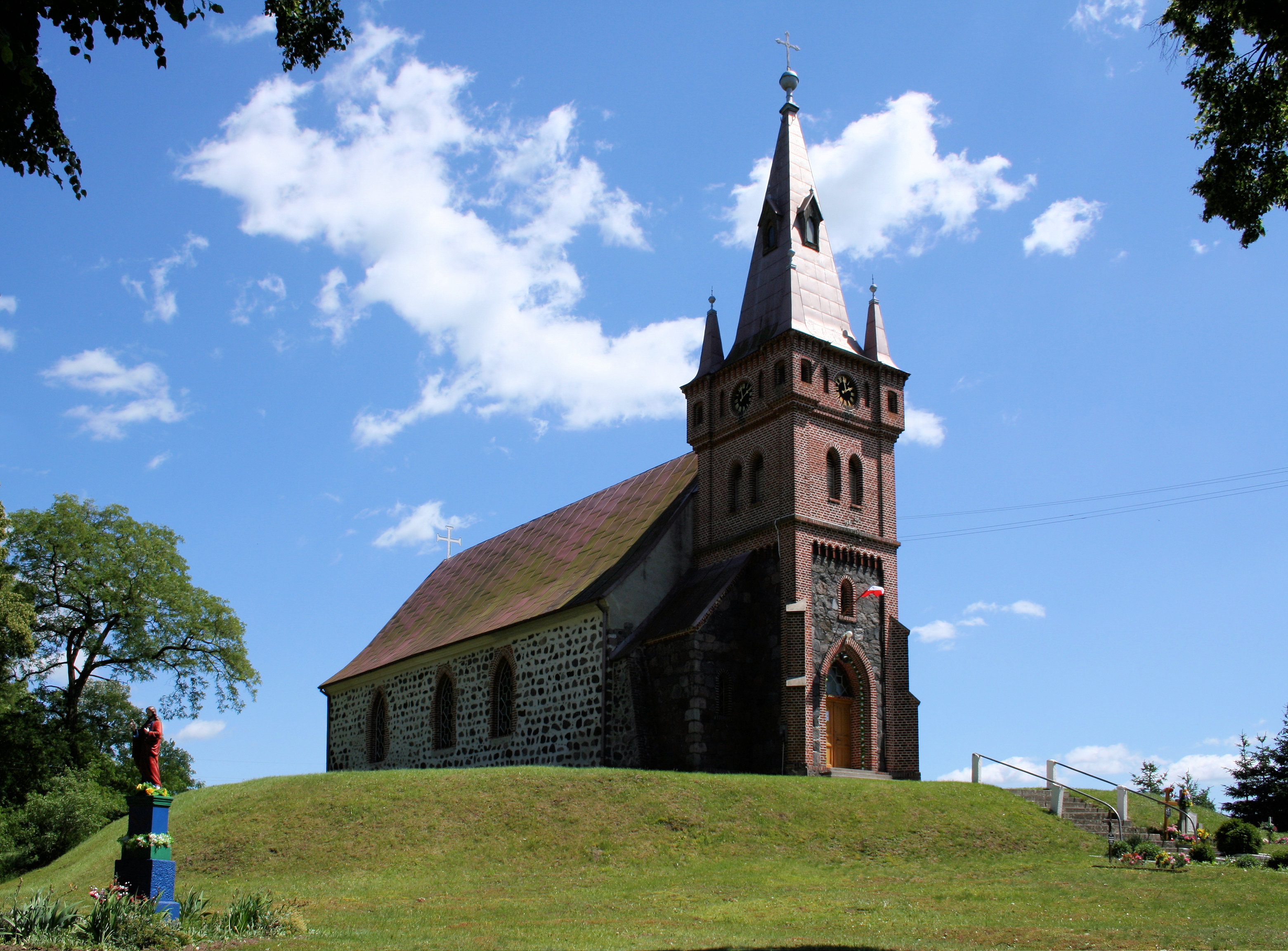 Church in Kurzycko, West Pomeranian Voivodeship